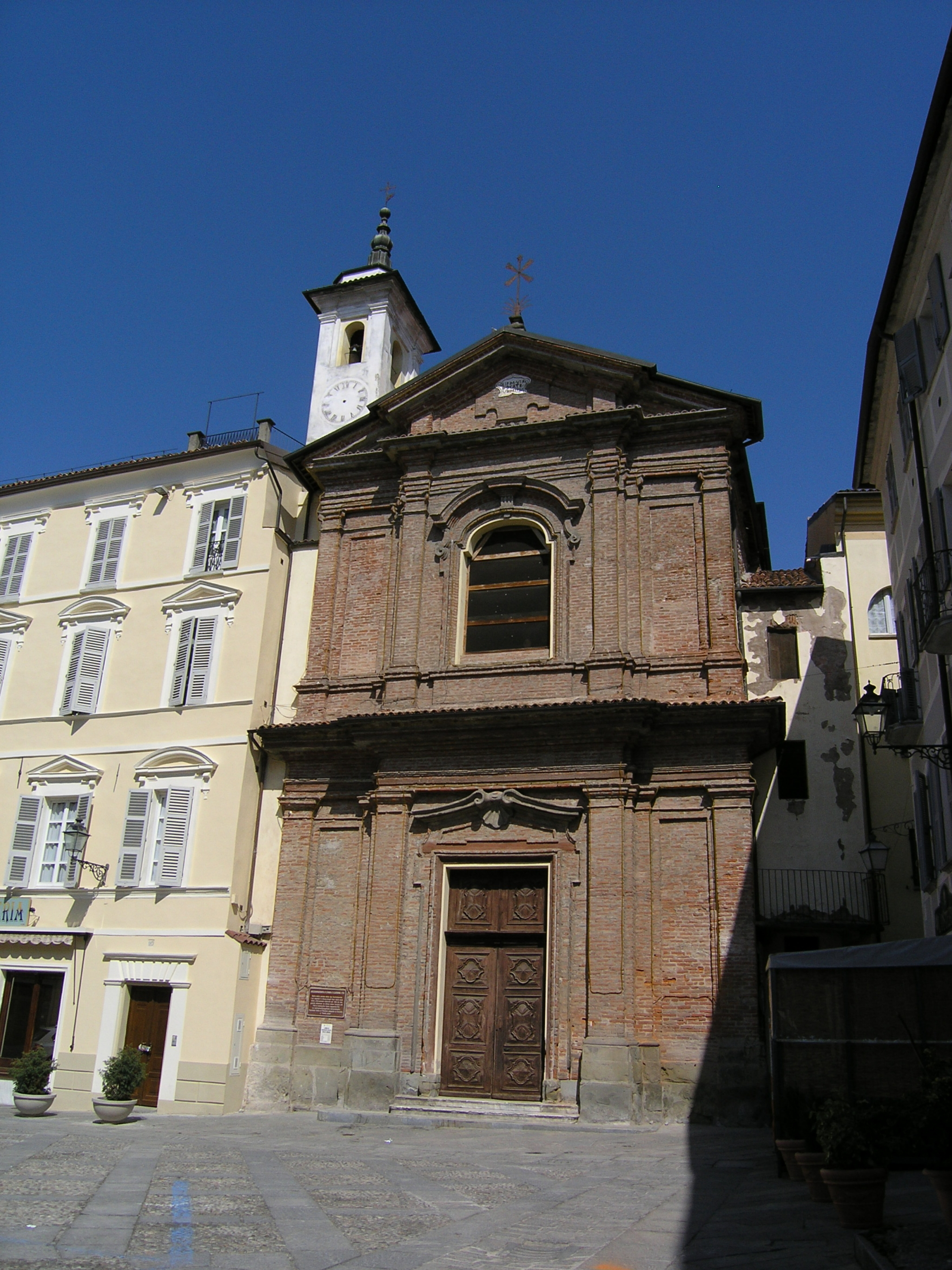 Church (dismissed) of the confraternity of Saint Mary and Catherine, Ceva (Italy)